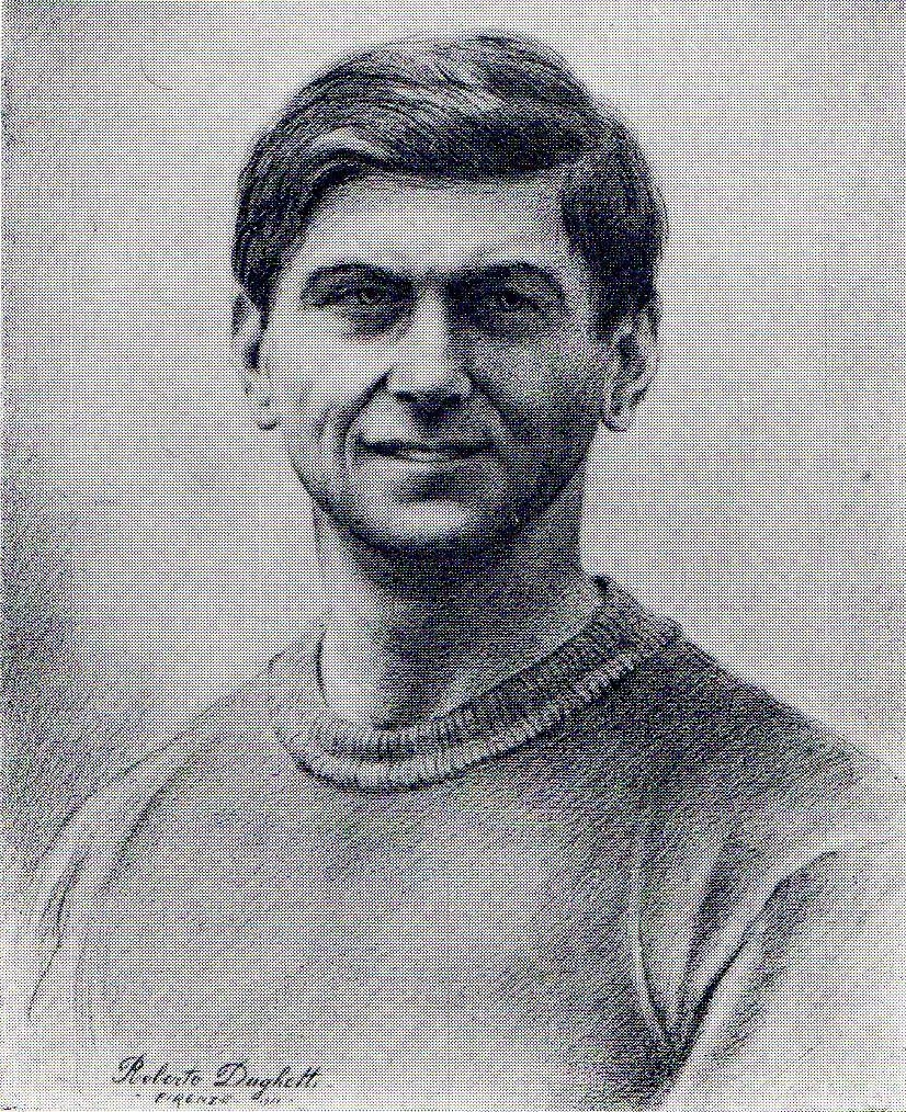 Italian football player Giacomo Bulgarelli